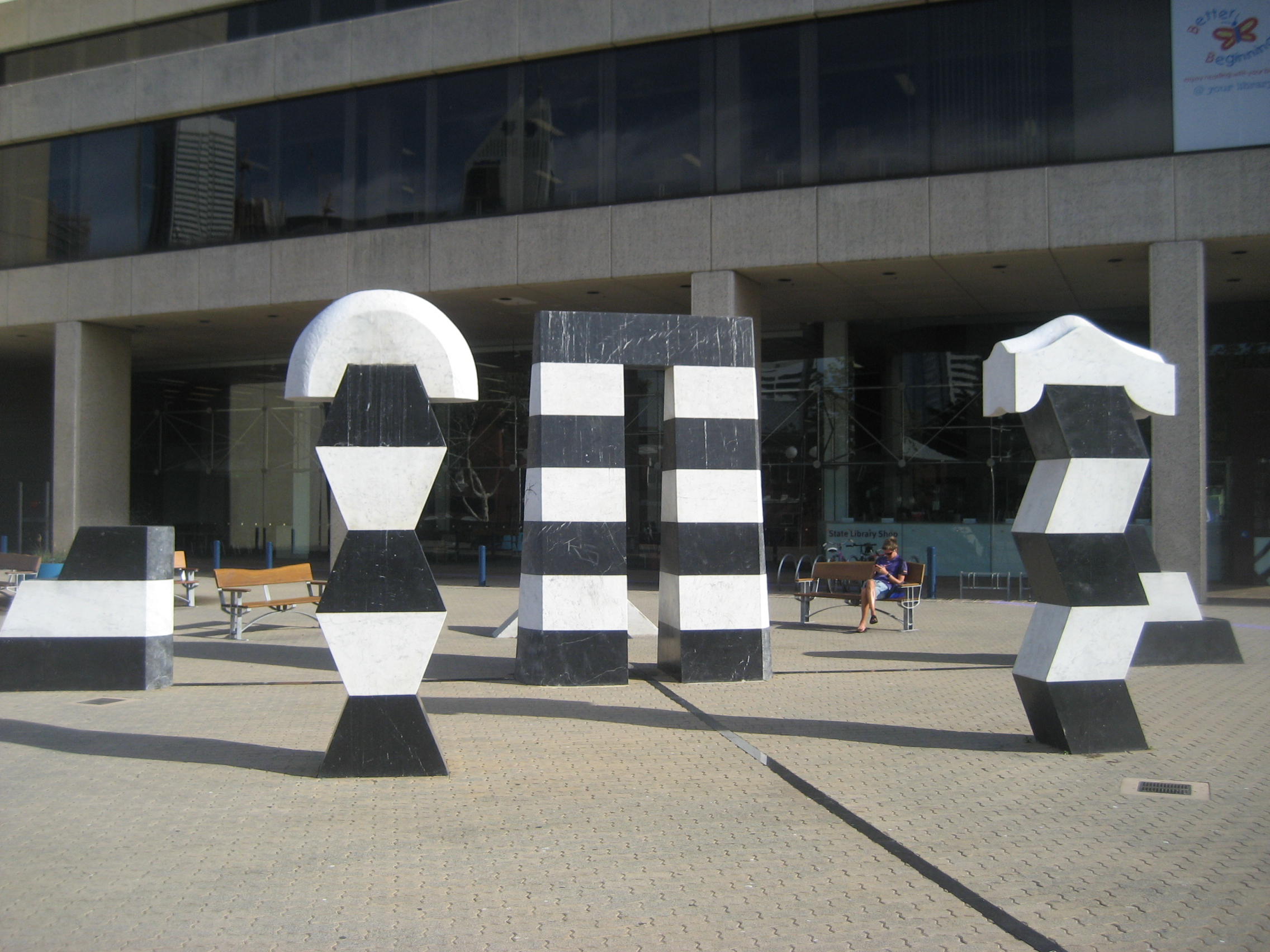 Public Art - Black and White, State Library, Perth Cultural Centre, Northbridge, Western Australia